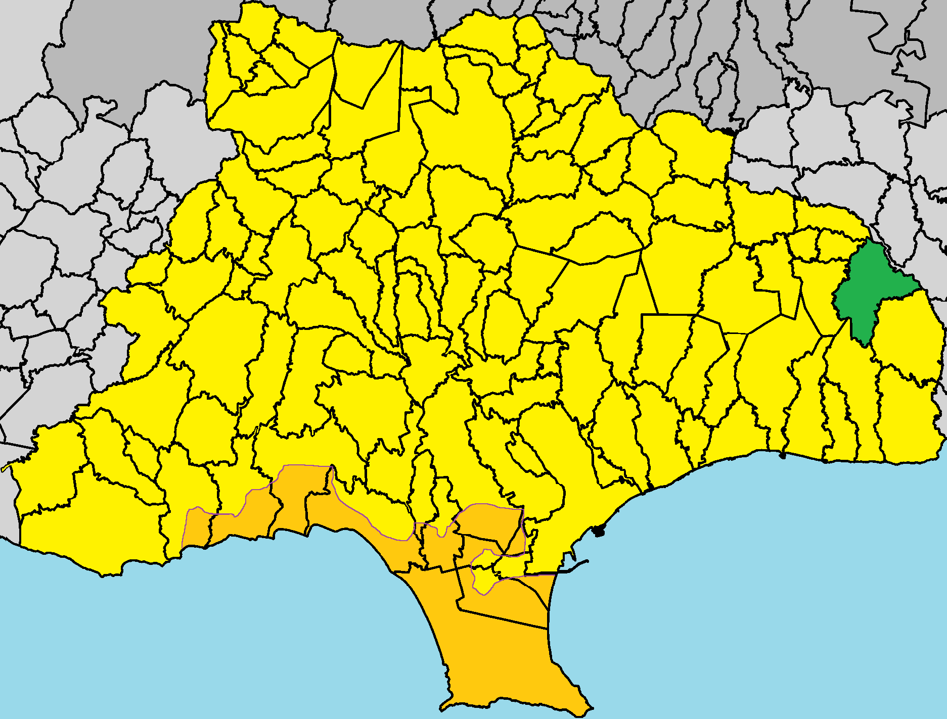 Vasa Kellakiou in Limassol District.